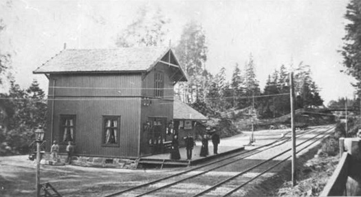 Høvik Station during the 1870s (probably 1874)